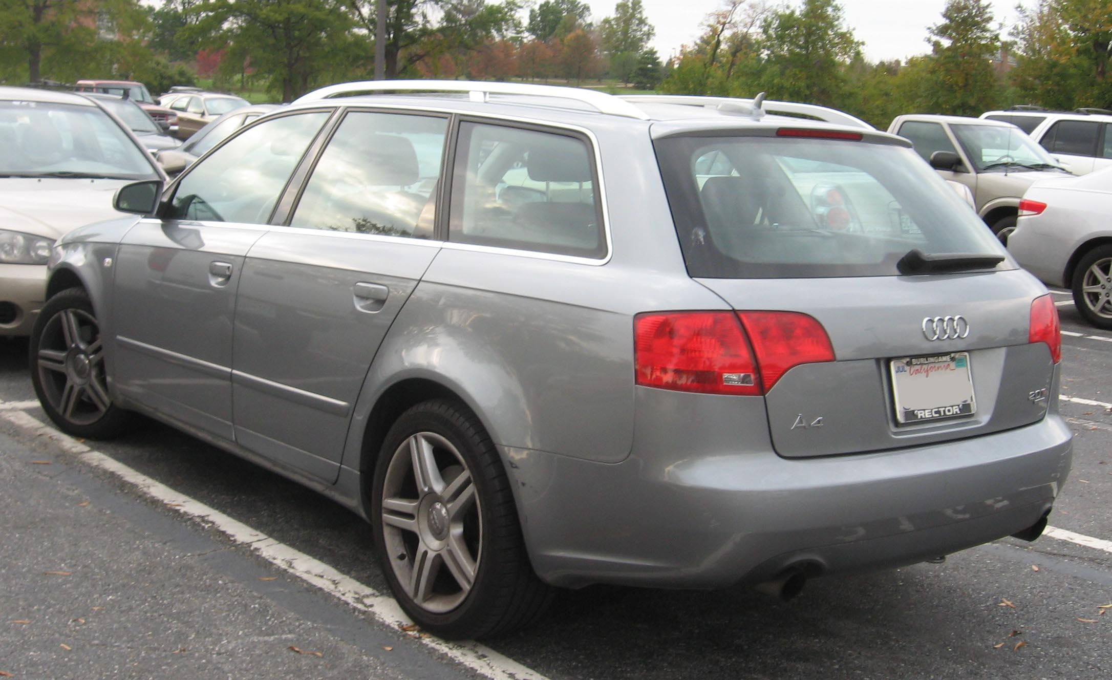 2005-2008 Audi A4 photographed in College Park, Maryland, USA.